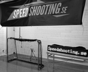 Example of Speedshooting setup